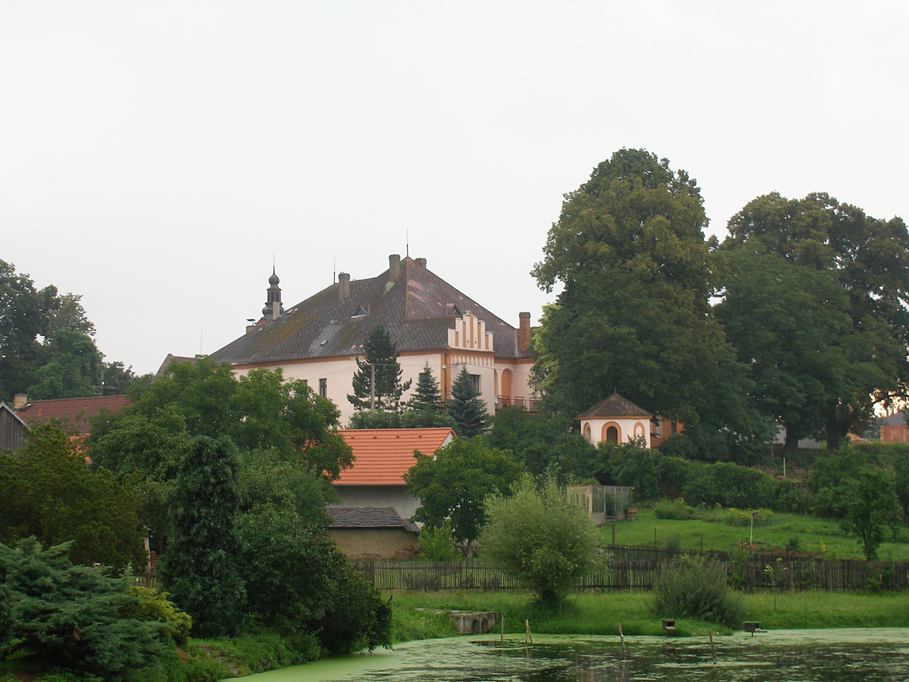 Myslkovice - the South-Western view of the castle